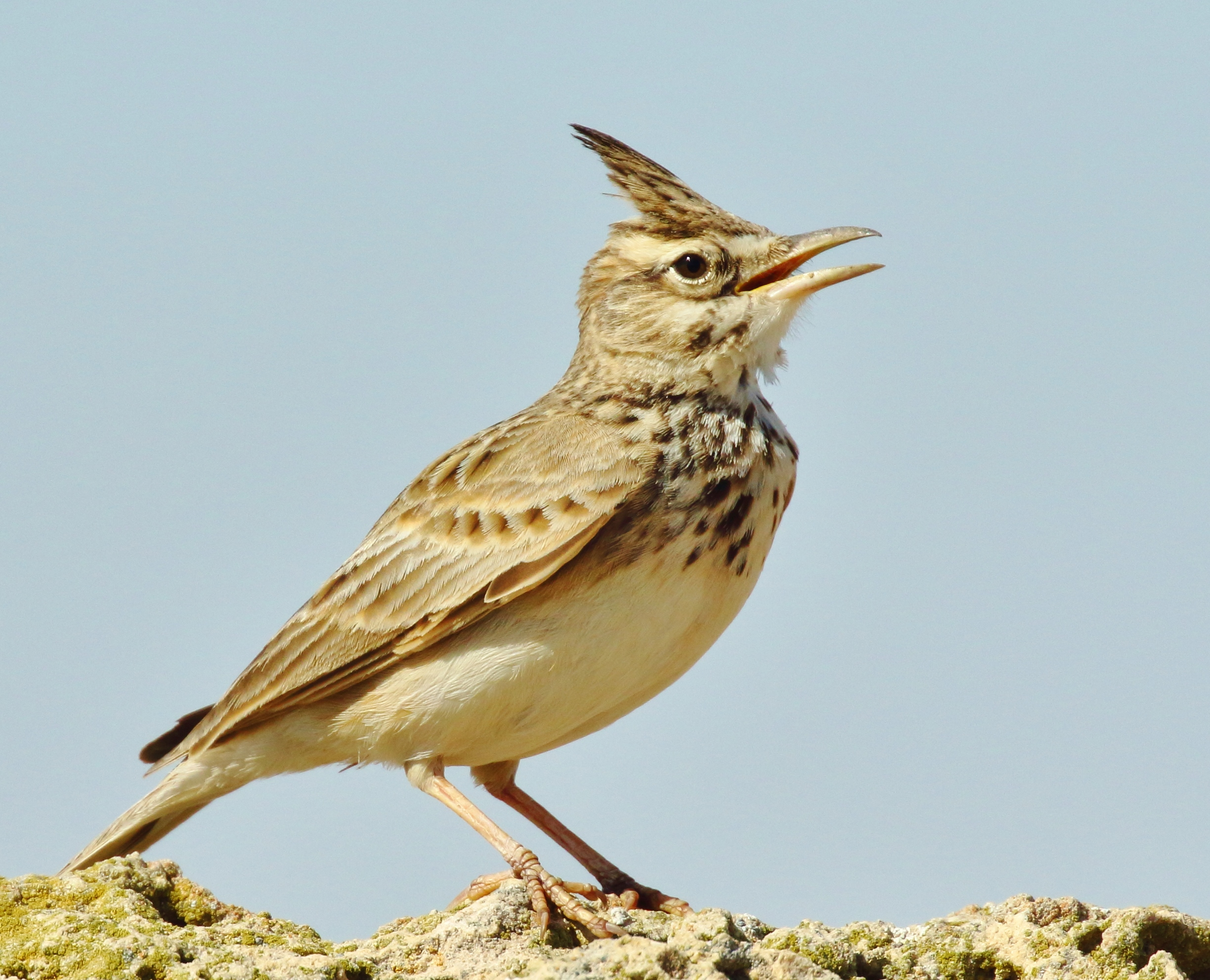 birds life